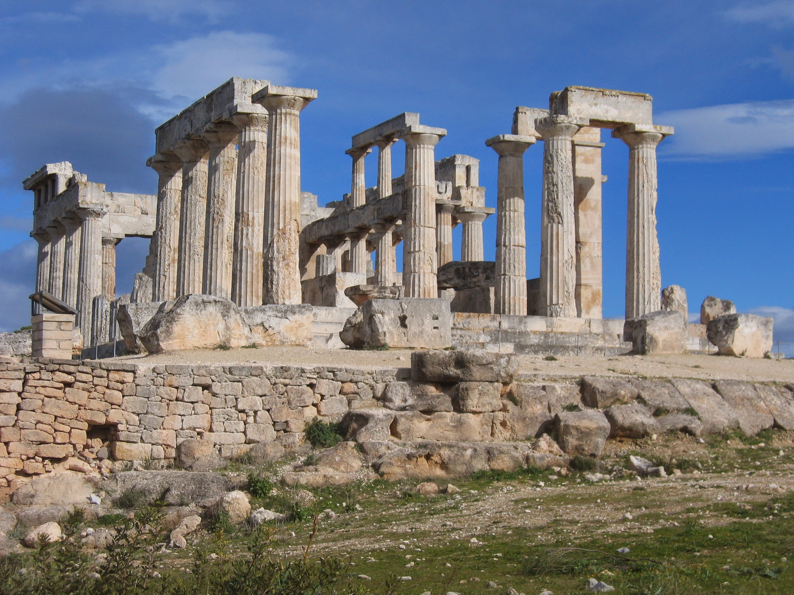 Temple of Aphaia on the island of Aegina near Athens, Greece